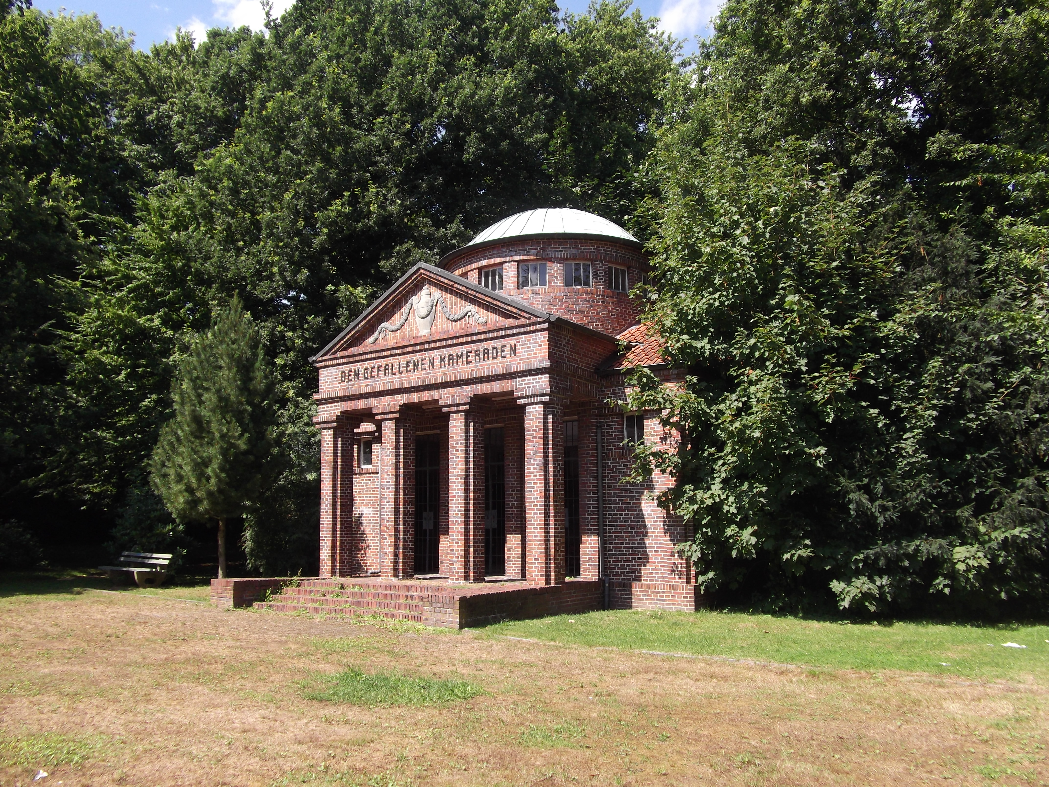 Memorial hall of the East Frisian artillery regiment no. 62. Constructed 1923. Location: Oldenburg (Oldenburg), Ofener Strasse.